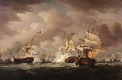 Battle of Camperdown